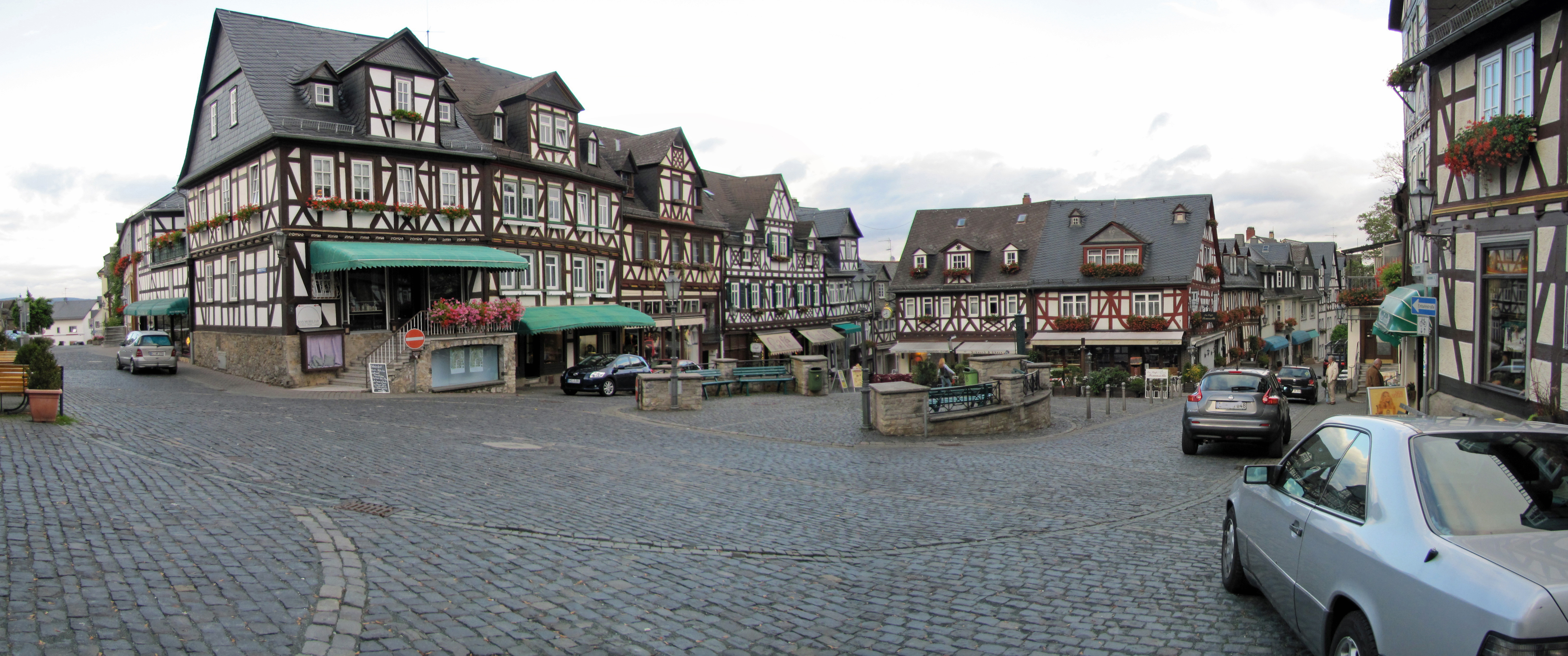 Market square in Braunfels, Hesse, Germany.